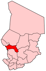 Map of Chad showing Hadjer-Lamis region.